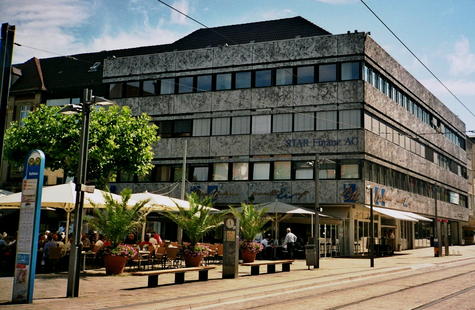 Heilbronn: LASPA-Haus (Landessparkasse) am Marktplatz 13 an der Ecke Kaiserstraße, früherer Standort des Rauch'schen Palais